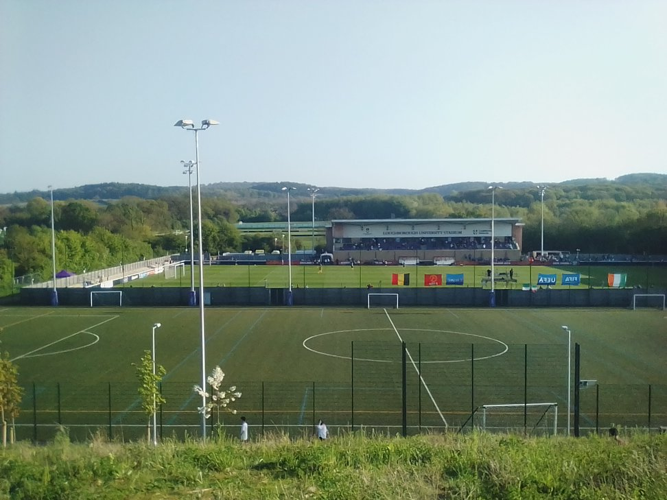 The Loughborough University Stadium and astroturf